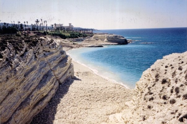 Burjeslam, A well known beach just north of Latakia, Named after a village nearby.